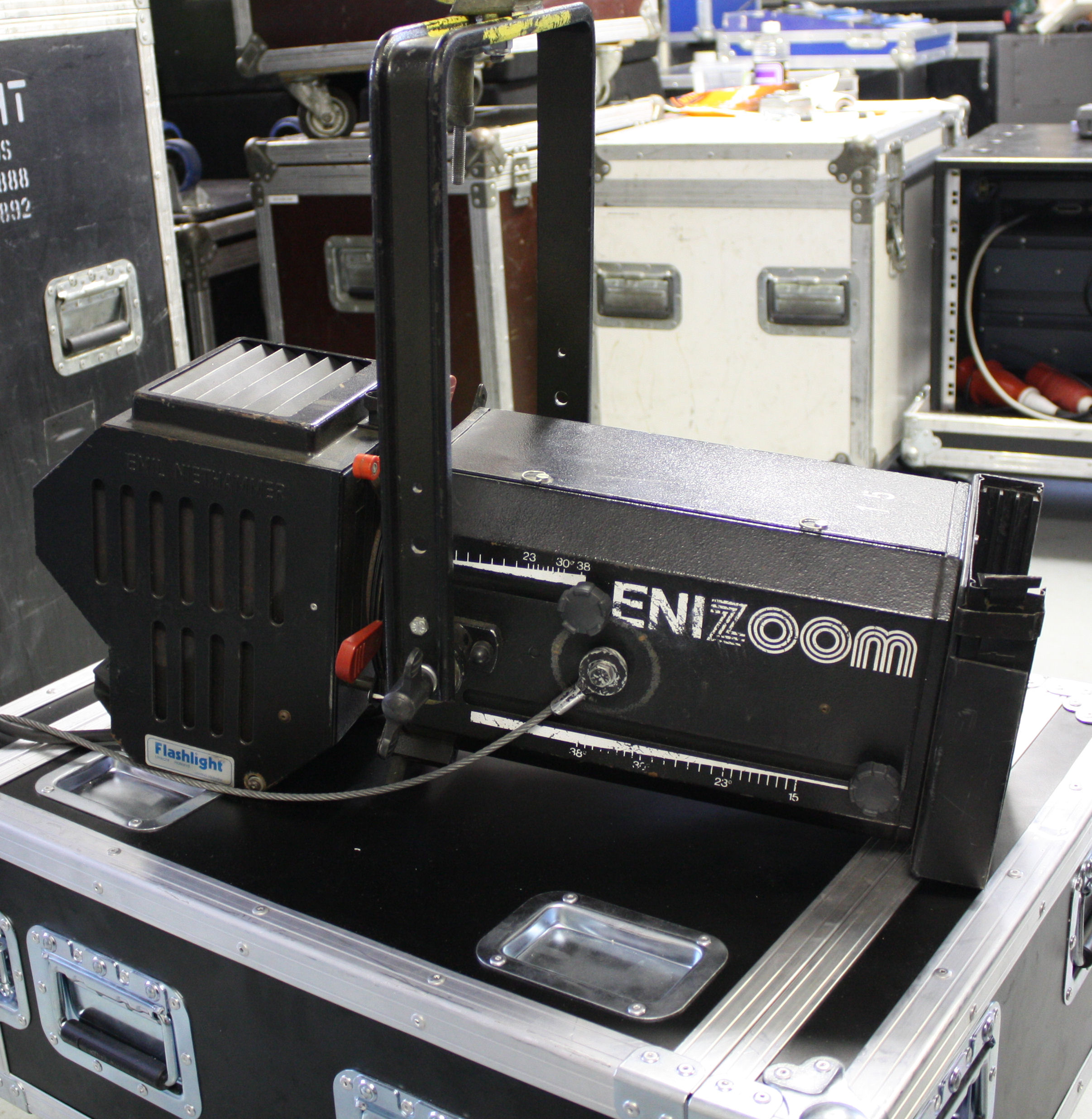 Niethammer Enizoom HPZ115 Zoomprofile. The field angle can be set between 15 and 38 degrees.